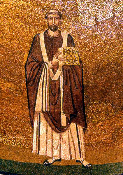 Pope Symmachus, from the basilica of Sant'Agnese fuori le mura, Rome.